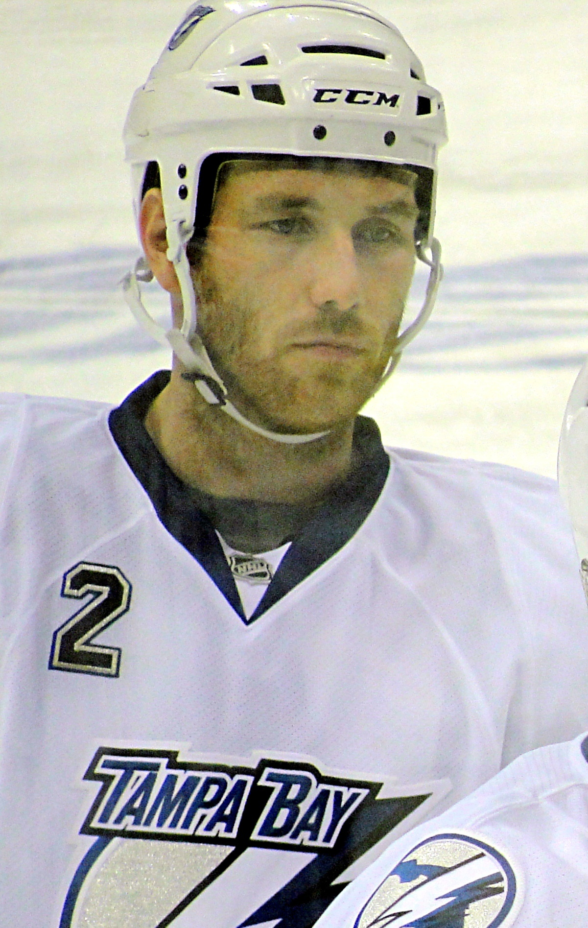 Tampa Bay Lightning defenseman during Game 5 of the first round of the playoffs against the Pittsburgh Penguins, April 23, 2011 at Consol Energy Center in Pittsburgh, PA.